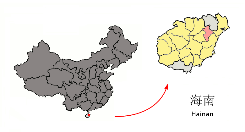 Location of Ding'an County (pink) and the subdivisions directly administered by the province (yellow) within Hainan province of China Map drawn in september 2007 using various sources, mainly : Hainan Counties map from